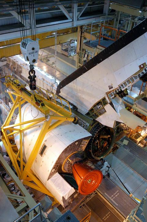 A Space Shuttle Orbiter's left-hand OMS/RCS pod being detached for maintenance.